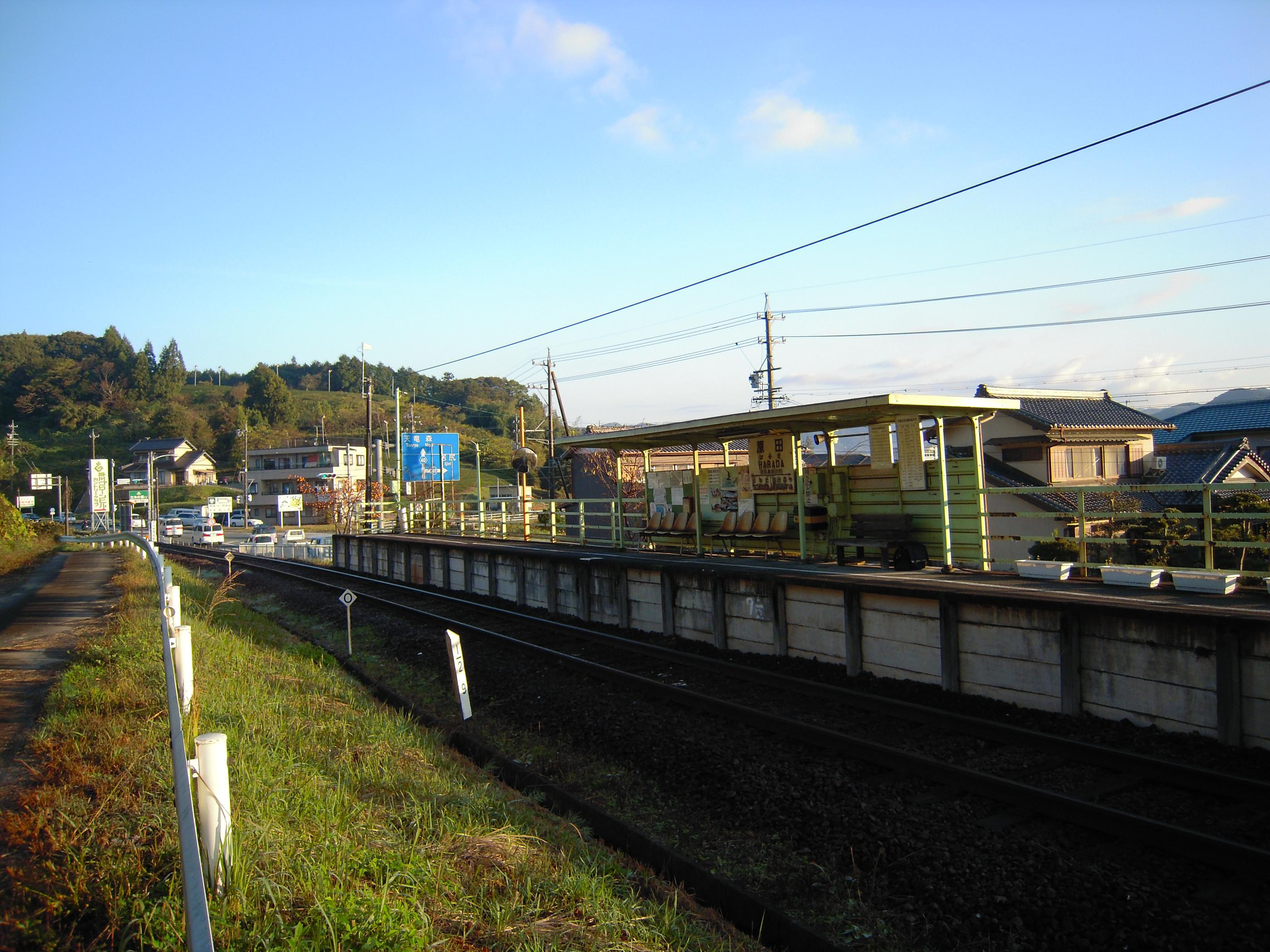 Tenryu-Hamanako railway company Harada station